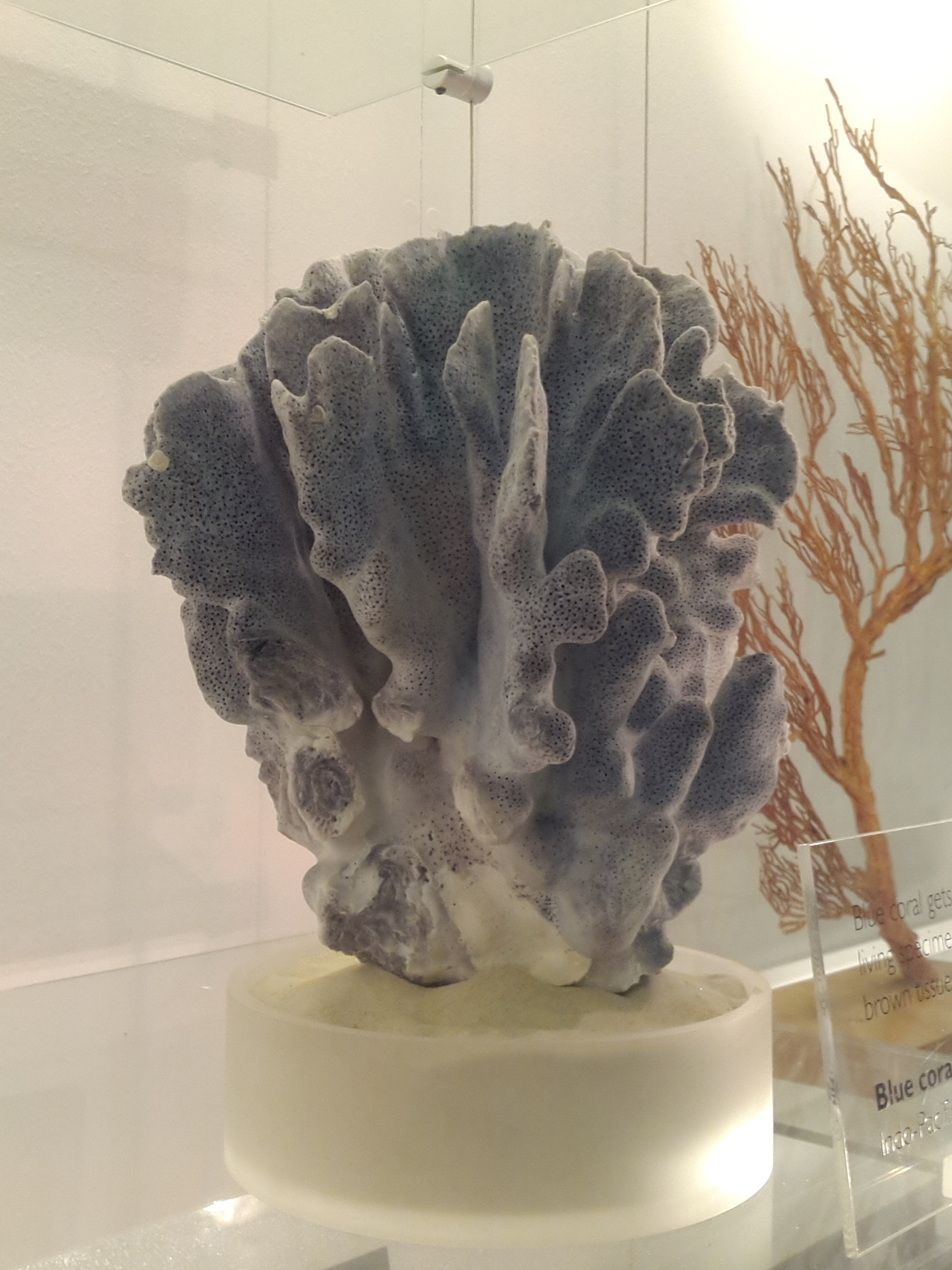 From the Marine Invertebrates Gallery at the Natural History Museum, London.